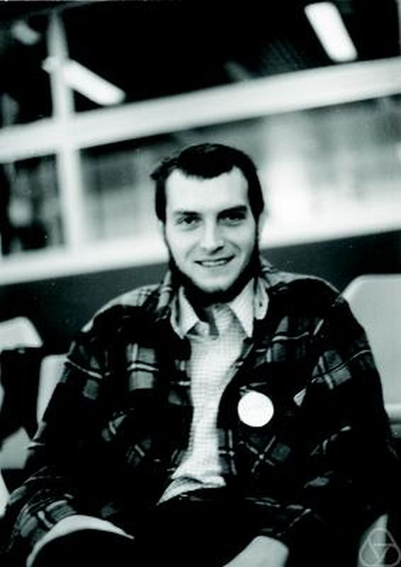 Michal Misiurewicz, Rennes 1975